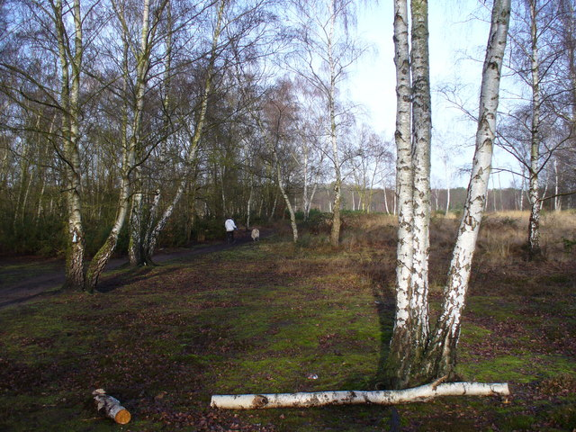 Whitmoor Common Silver birches with bracken and grass undergrowth near the Salt Box Road car park. This area is well used bt walkers from neighbouring Guildford housing estates.